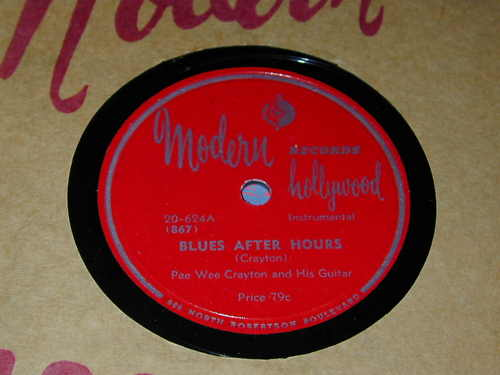 Pee Wee Crayton - Blues After Hours (Modern)